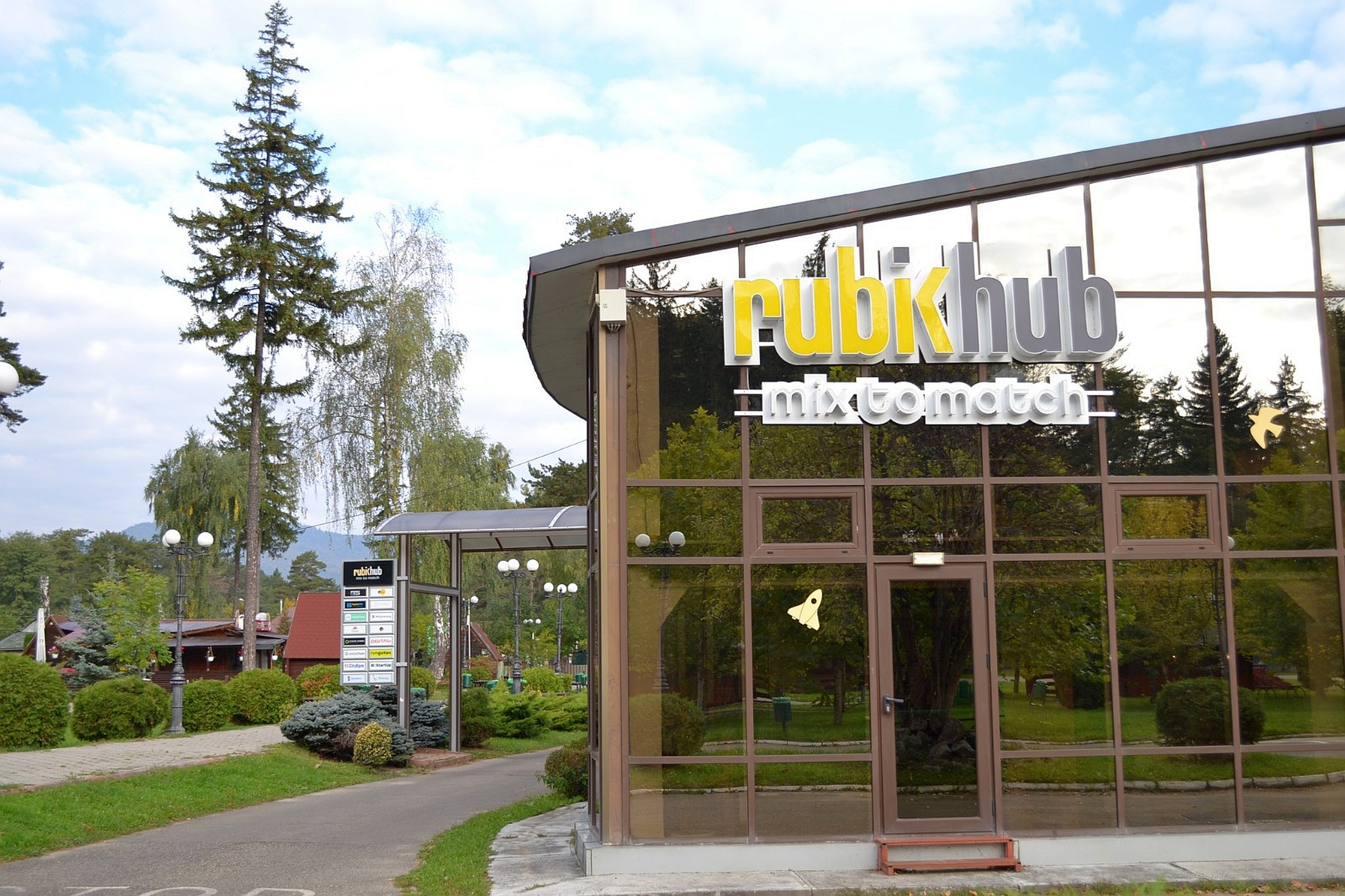 North-East RDA - Brussels Office